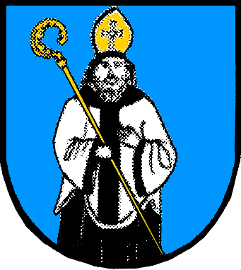 Iskrzyczyn COA